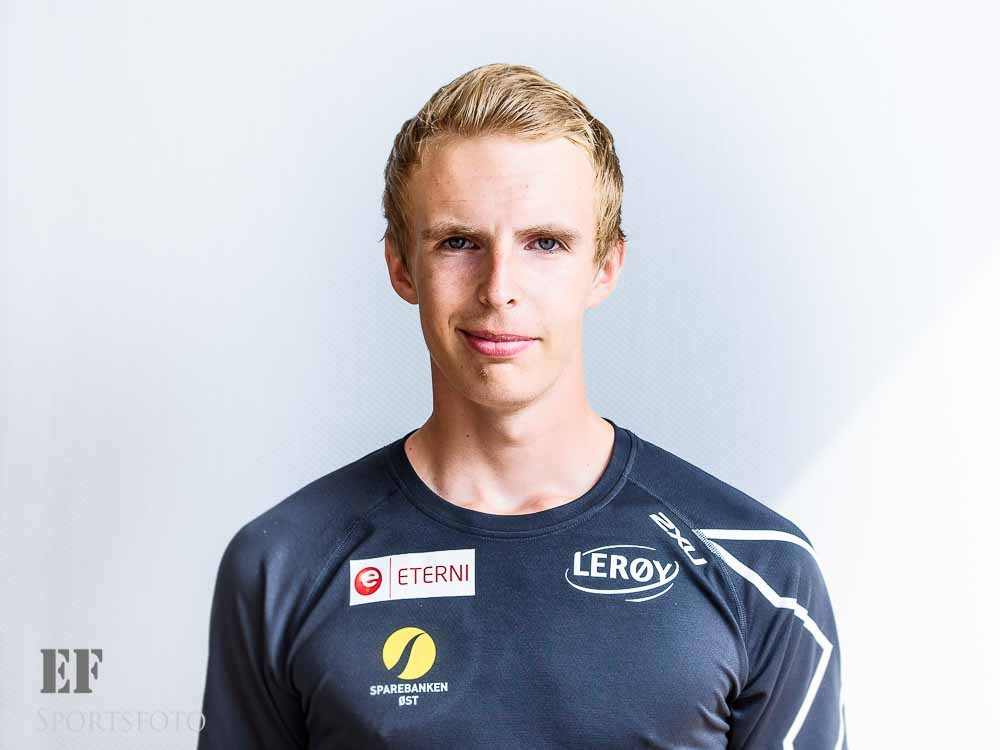 Norwegian Speedskater